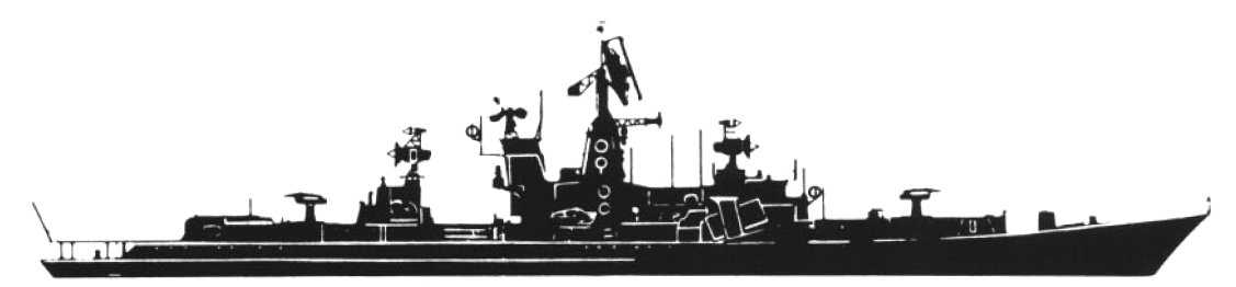 Profile of a Soviet Kresta II-class (Project 1134A, Kronshtadt) guided missile cruiser.